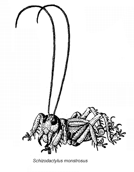 Schizodactylus monstrosus grasshopper